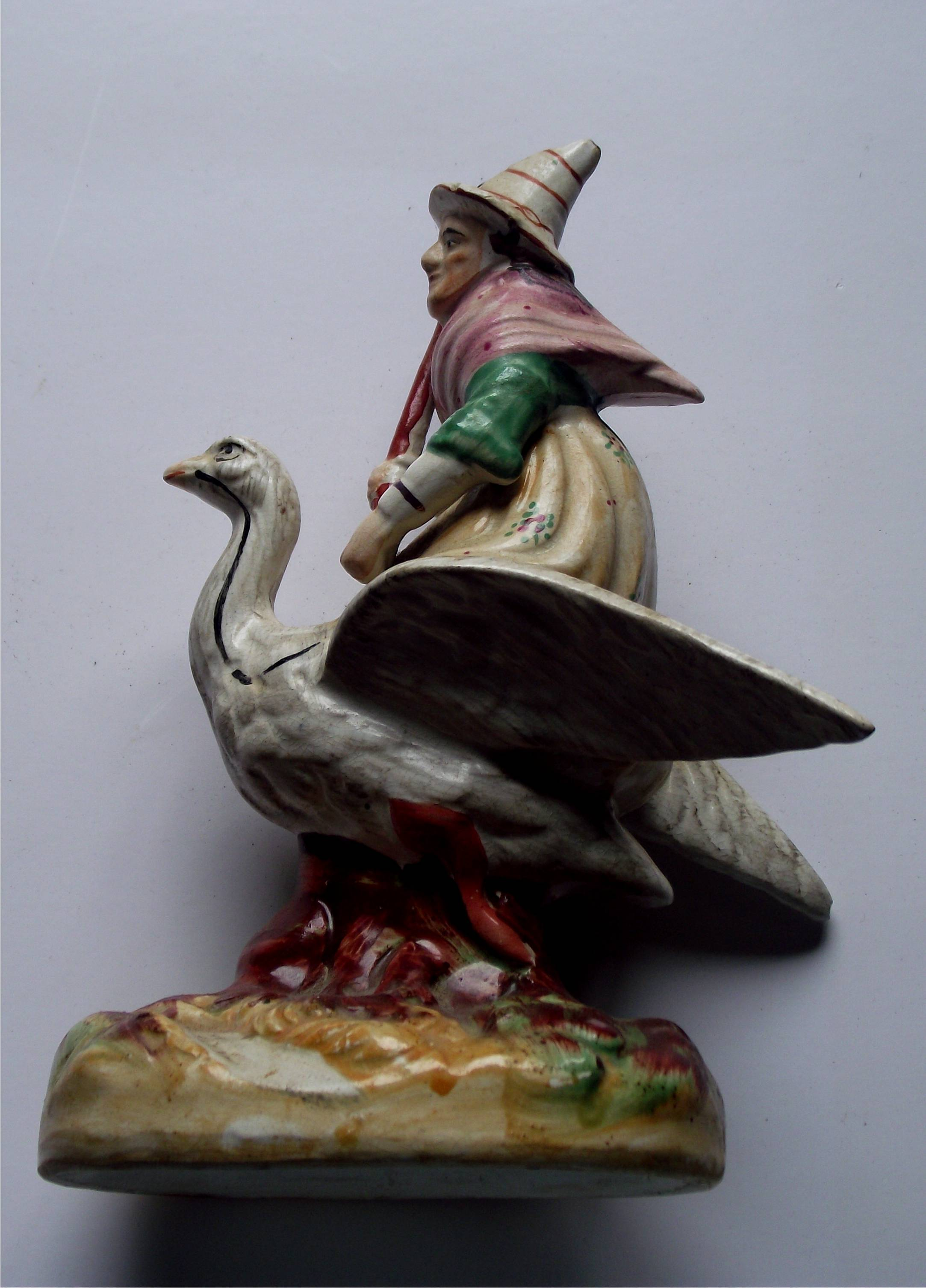 C19th Staffordshire figure 'Mother Goose' From Mal Corvus Witchcraft & Folklore artefact private collection owned by Malcolm Lidbury (aka Pink Pasty)